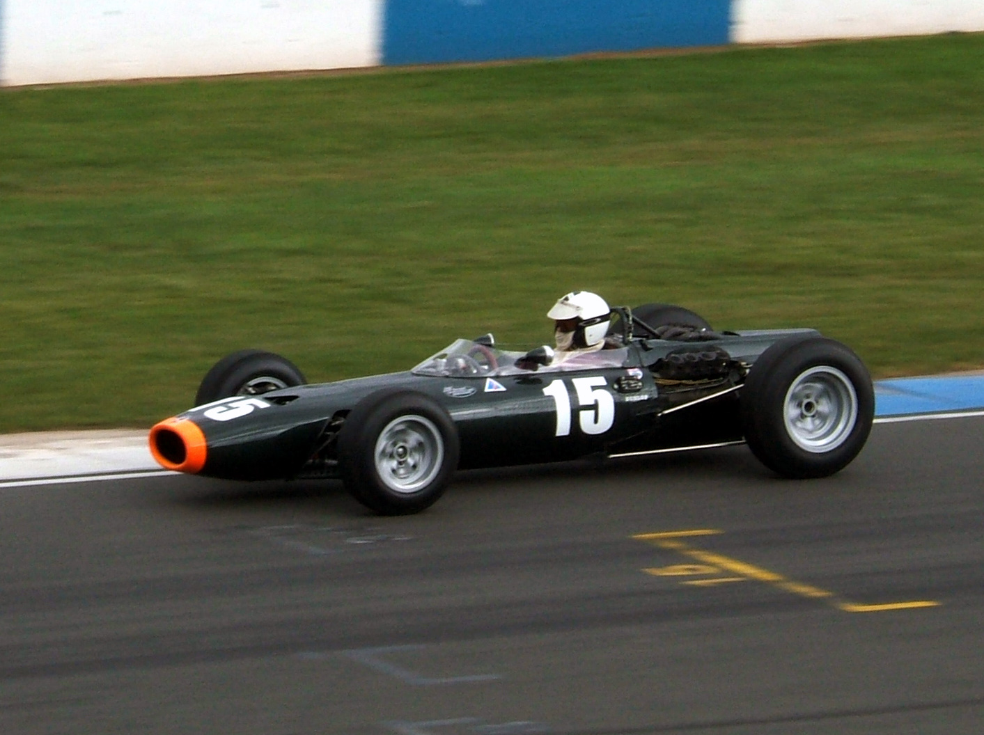 A BRM P261, driven by Richard Attwood, accelerating on to the Wheatcroft Straight at Donington Park during the VSCC SeeRed race meeting, September 2007. Attwood drove a similar car during the 1966 and 1967 Tasman Series races in Australia and New Zealand.